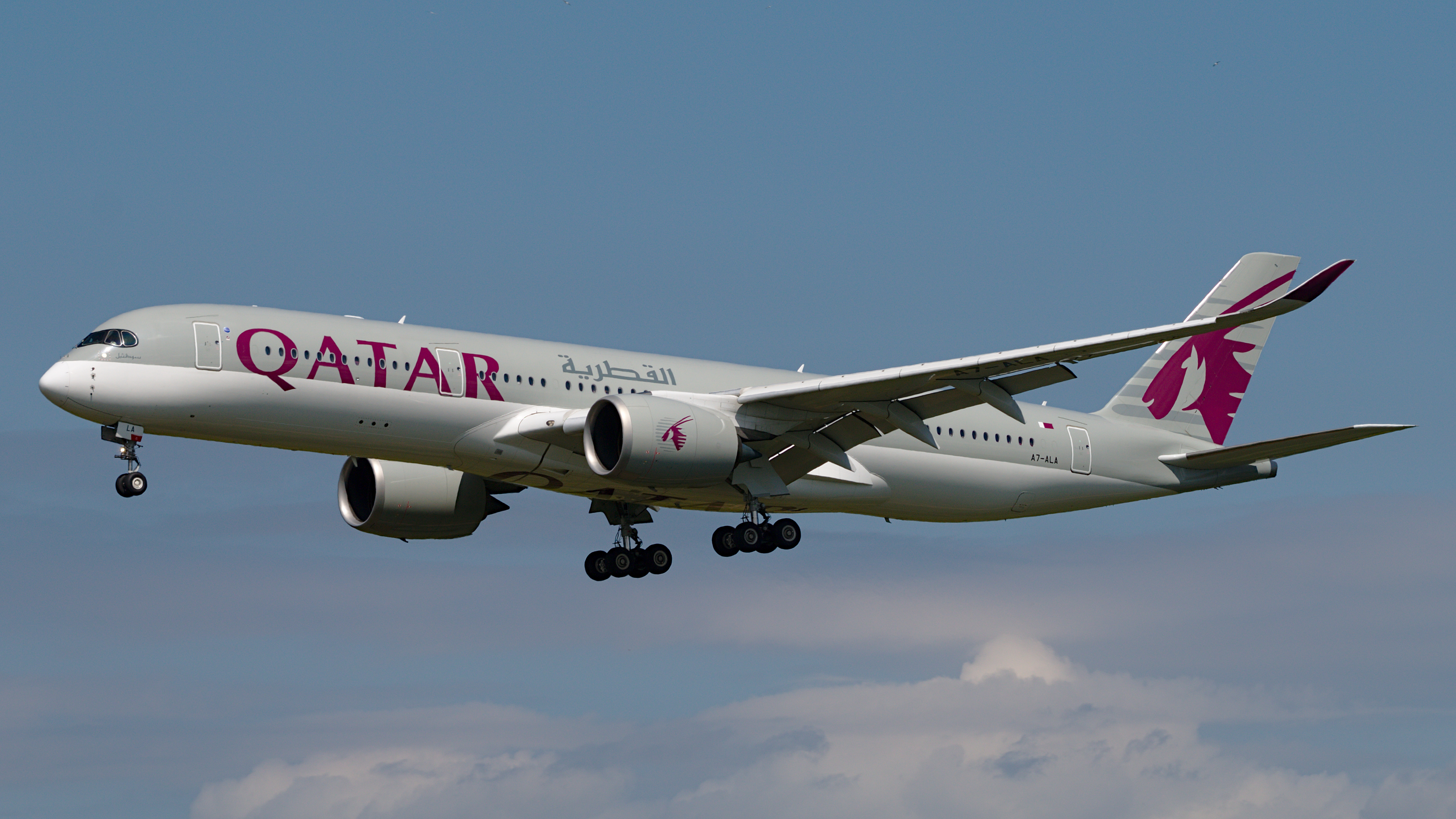 A7-ALA Qatar A350-900 landing at Edinburgh airport runway 24.